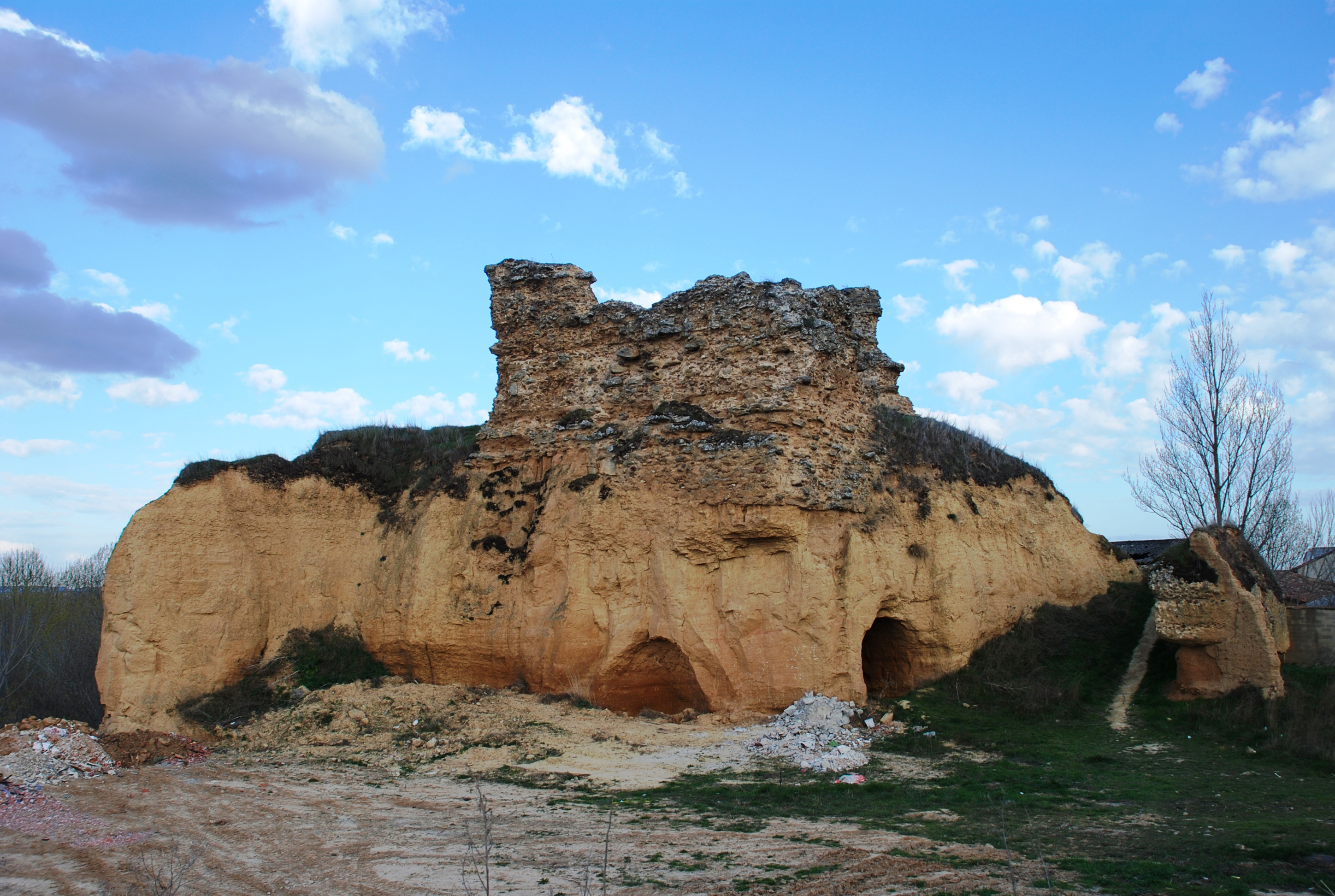 Castle of Castrillo de Villavega (Palencia, Castile and León).